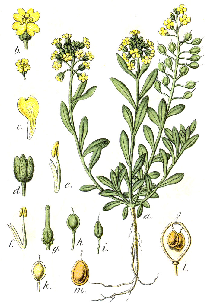 Alyssum montanum L., syn. Crucifera alyssum E.H.L.Krause Original Caption Echtes Schildkraut, Crucifera alyssum